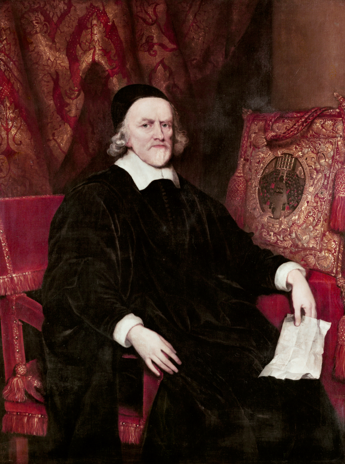 Portrait of Richard Keble (died 1683/4), English lawyer.